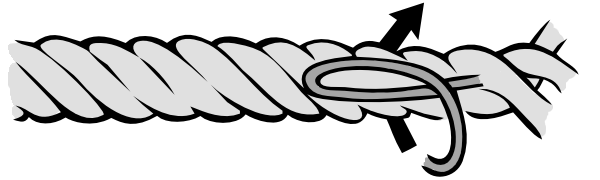 bind a common whipping (step 1), selfdrawn, GNU-FDL drawing by: Hella Handdrawing 1995, 2004 new revised with autotrace [1], sodipodi[2] and gimp [3] for the german wikipedia. first publicated: 1995 in Knoten (nicht nur) für Pfadfinderinnen, publisher PSG München alternative view (all steps in one picture): common wipping binding other pictures of this series: rope without wipping, step 2, step 3, finished common wipping 18:05, 21 May 2004 Hella 600x180 (34,119 bytes) (*bind a common whipping (step 1), selfdrawn, GNU-FDL)